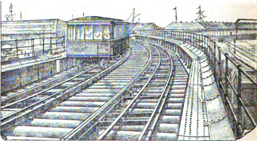 Illustration of the Liverpool Overhead Railway by an unknown author.